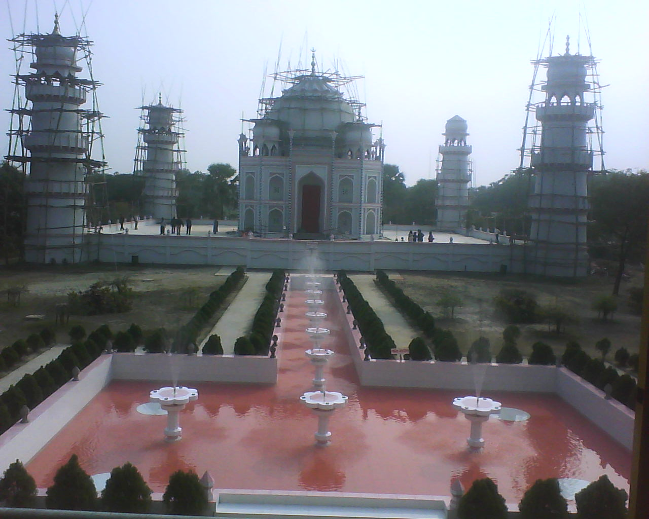 Taj Mahal in Bangladesh. Bangla Taj